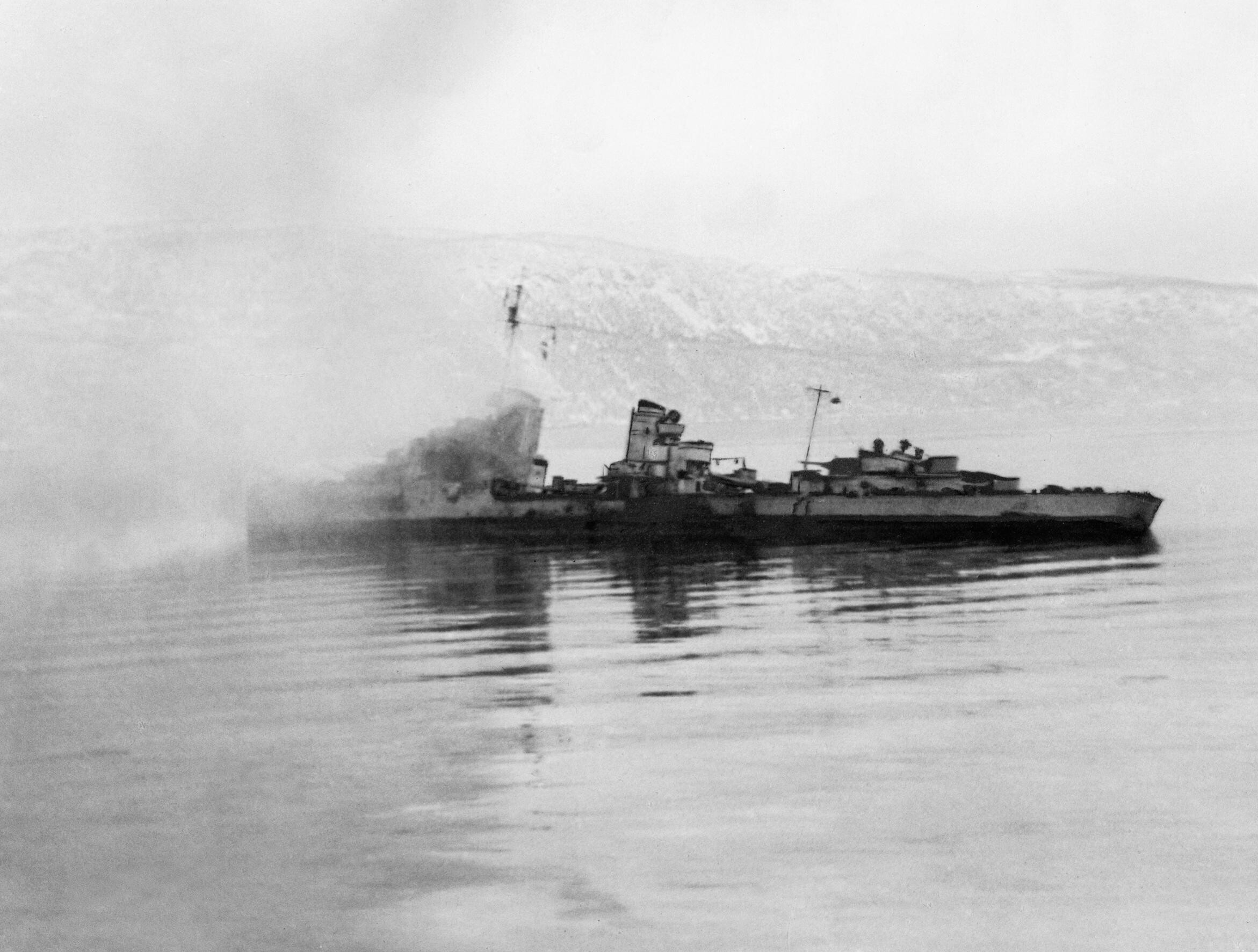 The Second British Naval Action Off Narvik. 13 April 1940. An enemy destroyer abandoned and on fire east of the harbour. She drifted until the next morning (14 April) when she sank.